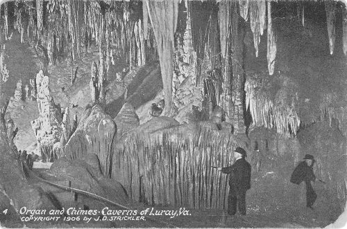 This postcard from 1906 illustrates the method of early lithophone performances in Luray Caverns, Virginia, United States